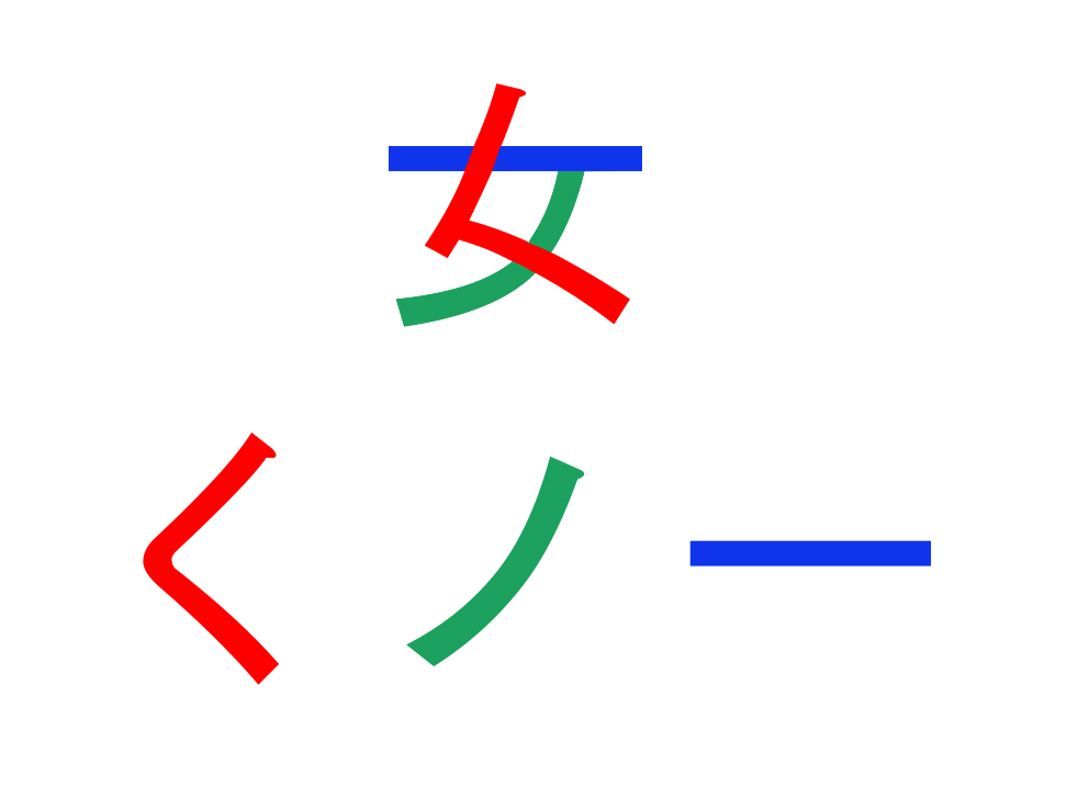 graphic for kunoichi, created in photoshop